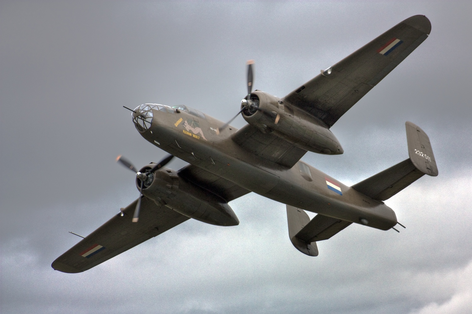 B-25 Mitchell "Sarinah"